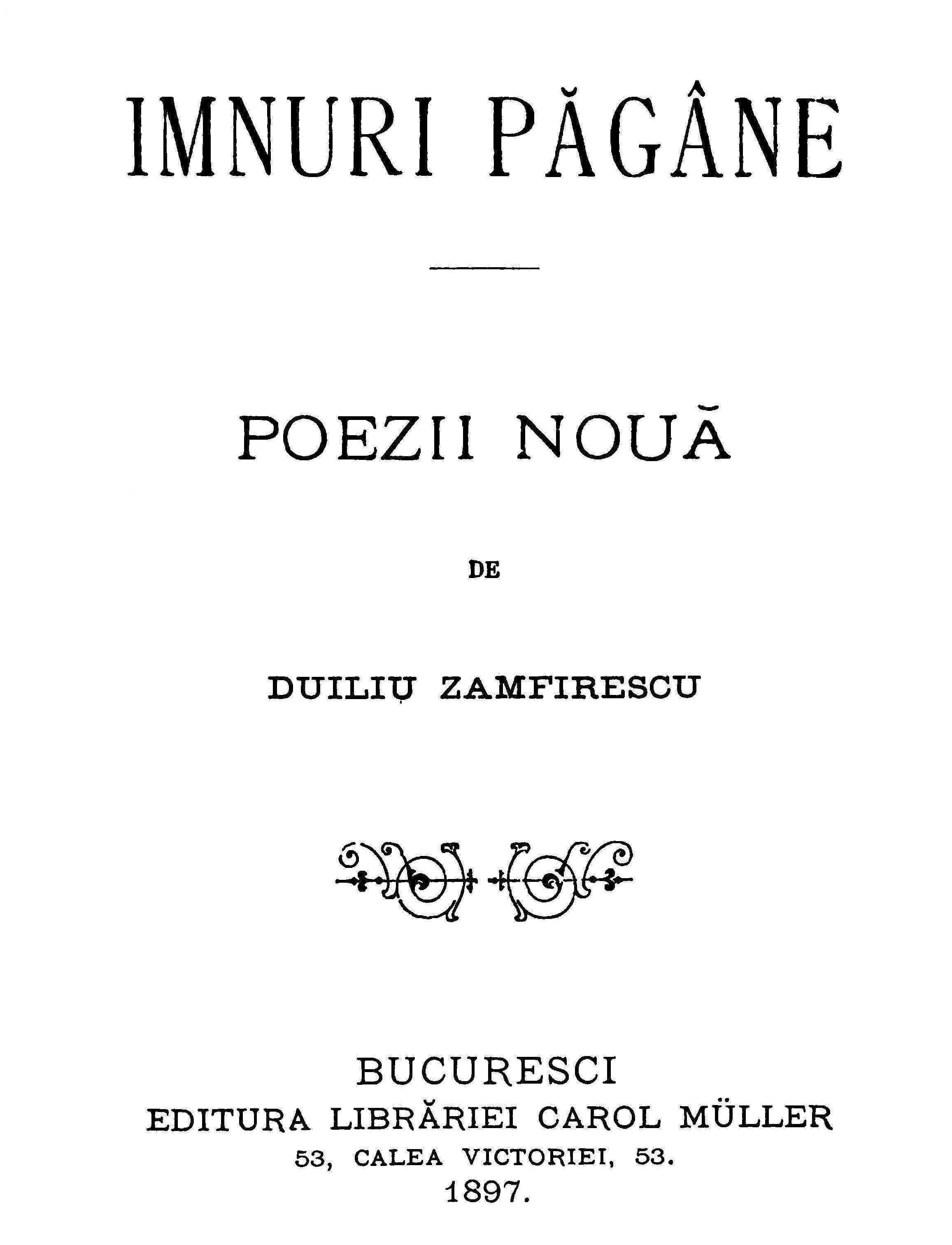 Duiliu Zamfirescu - First page of Imnuri păgâne, published by Editura Librăriei Carol Muler in 1897.